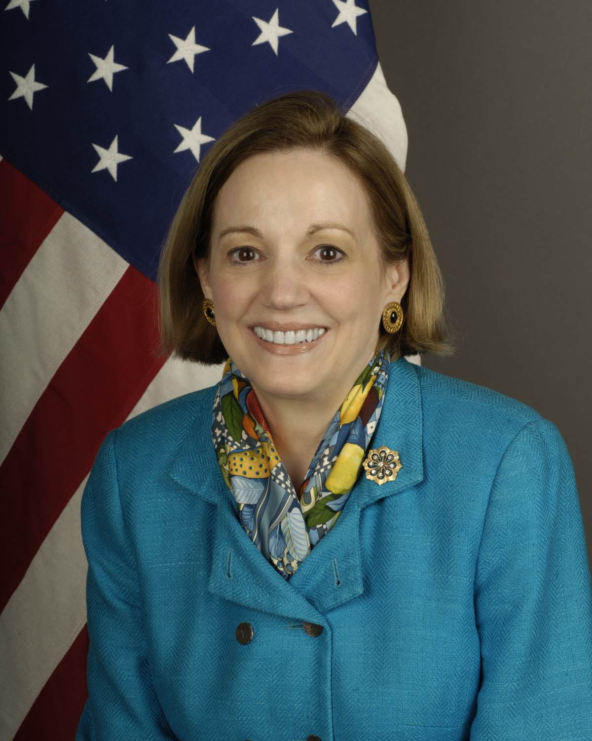 Anne W. Patterson, U.S. diplomat. As of 2011, U.S. ambassador to Egypt.